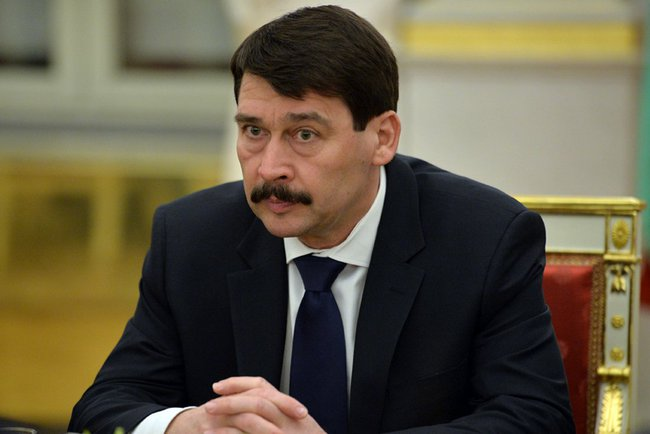 Vladimir Putin on a visit to Hungary in February 2015